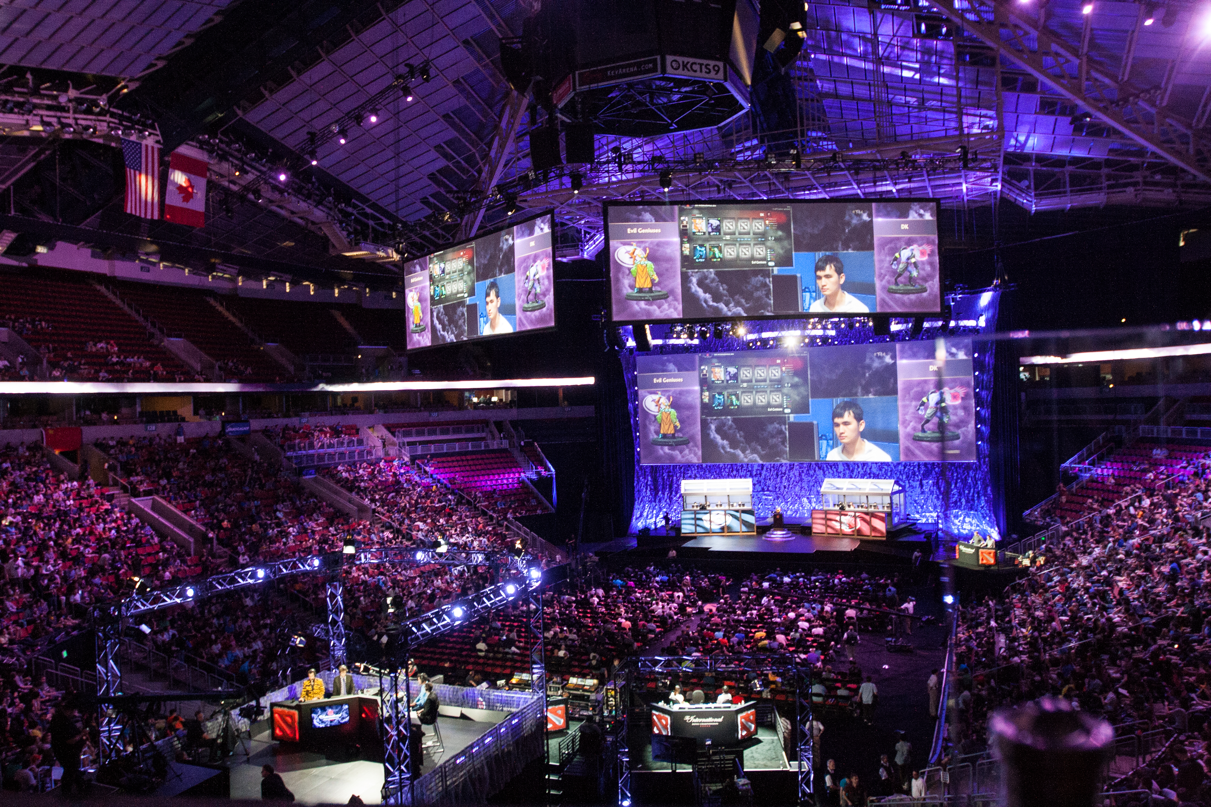 The stage and crowd at KeyArena for The International 2014